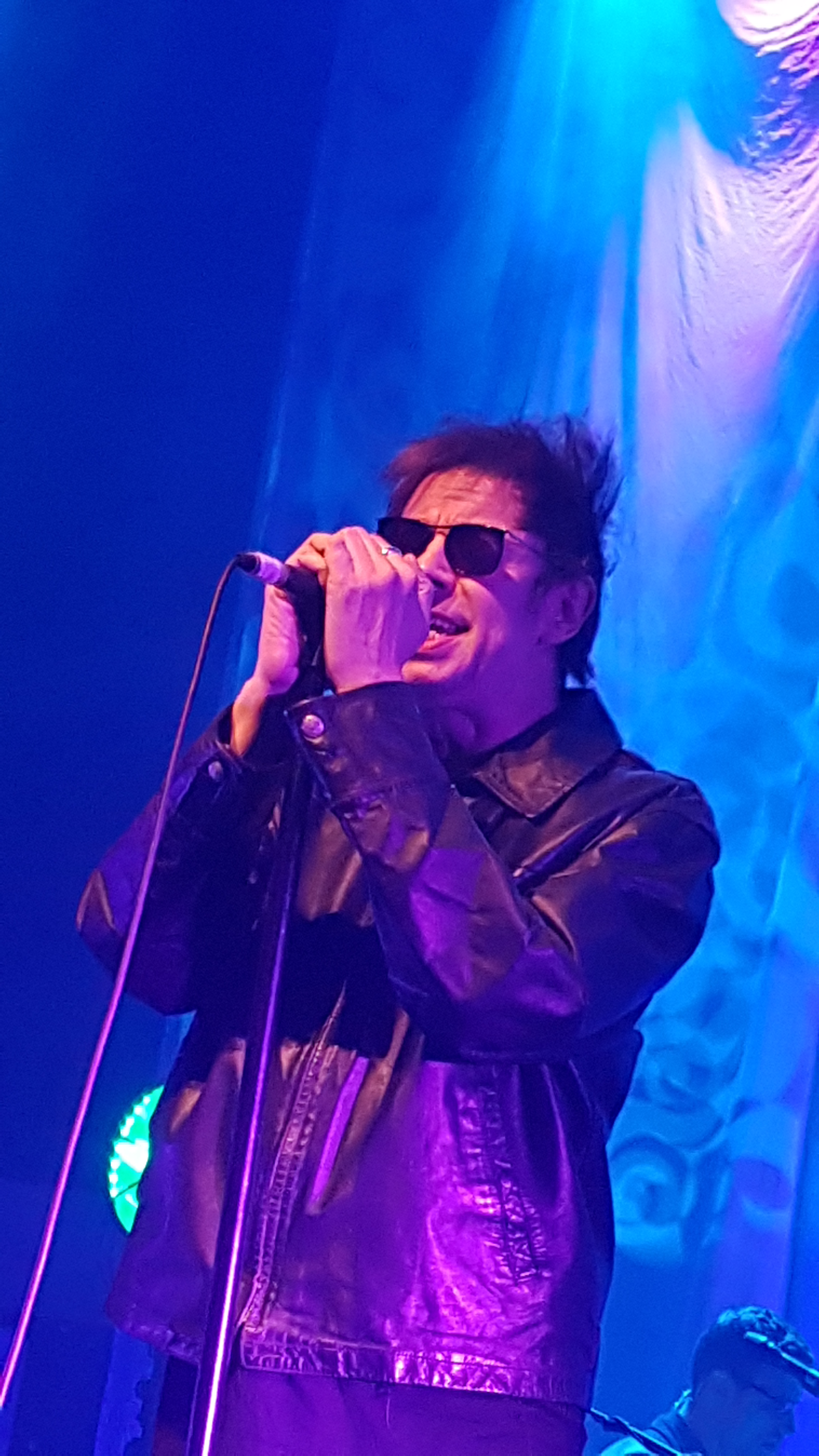 Ian McCulloch, November 2018, Utrecht, The Netherlands